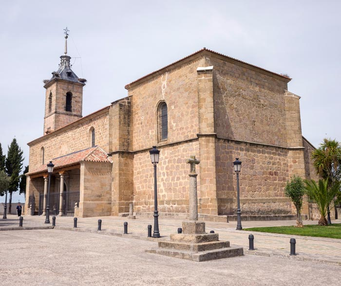 Iglesia parroquial de San Bernardino de Siena